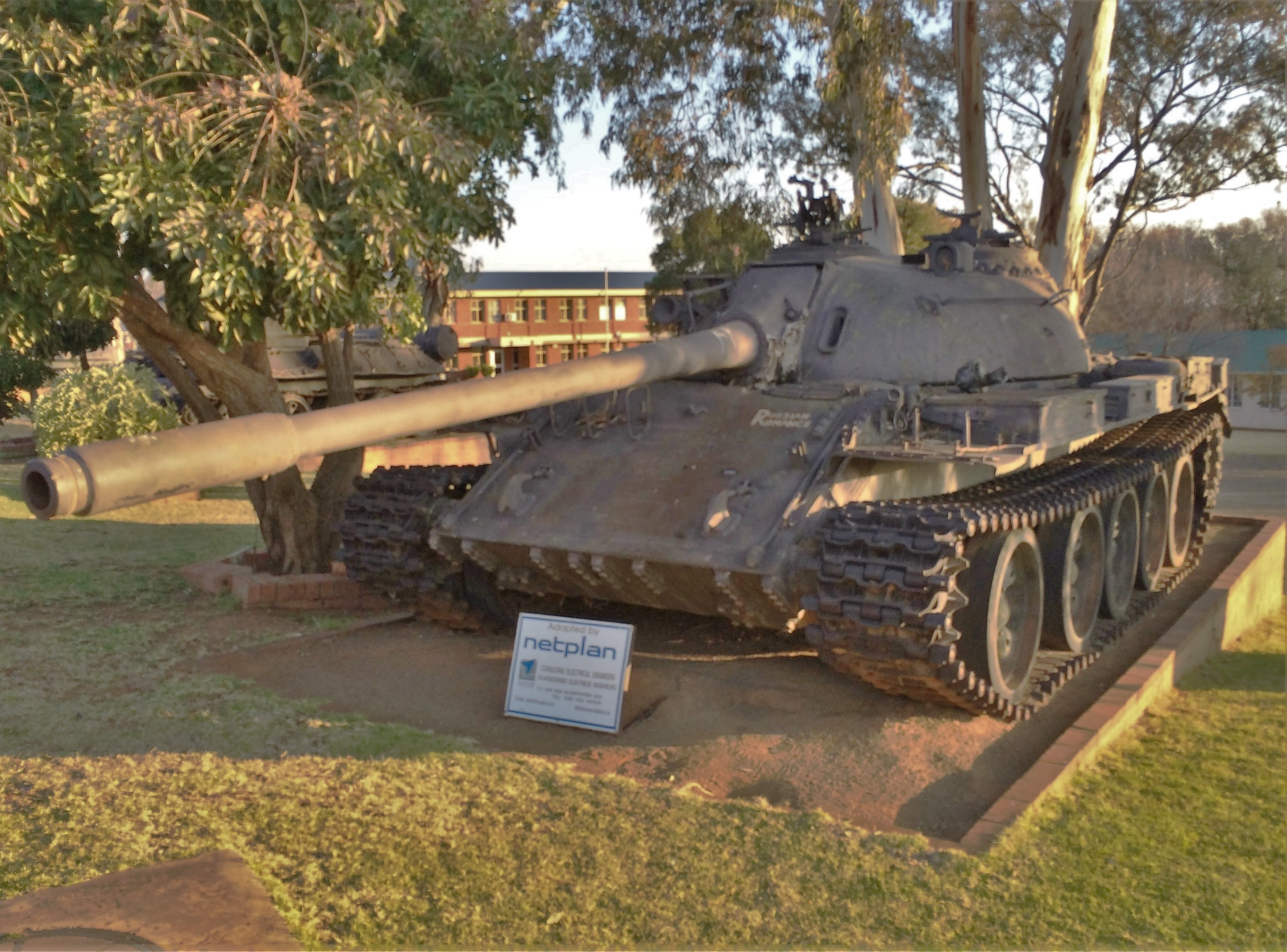 Altered version of a previous Commons image. T-55 tank, South African Armour Museum. Cleaned up, cropped and lightened for an article on the preceding conflict. Limited contextual relevance to original work.